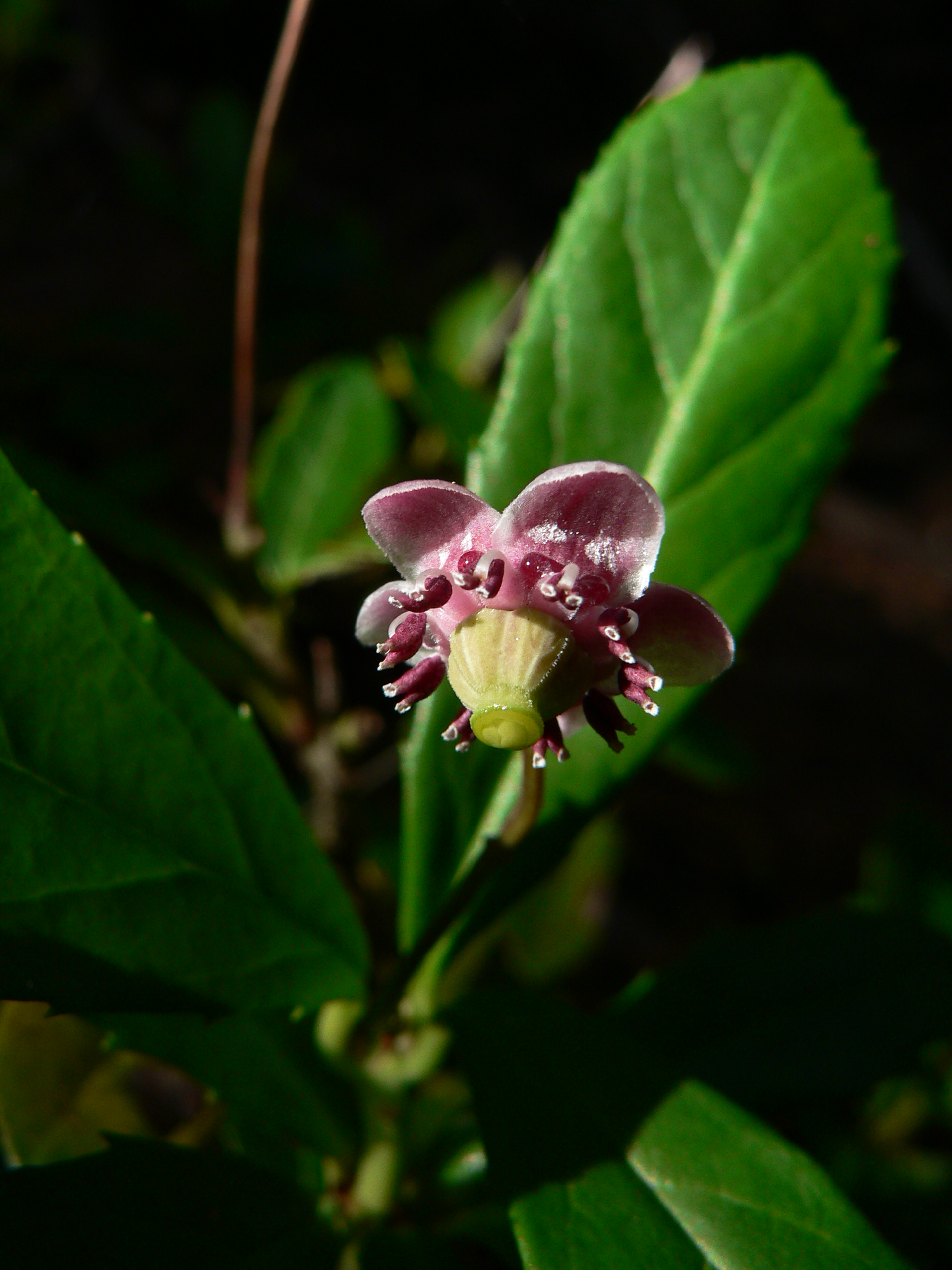 Pipsissewa